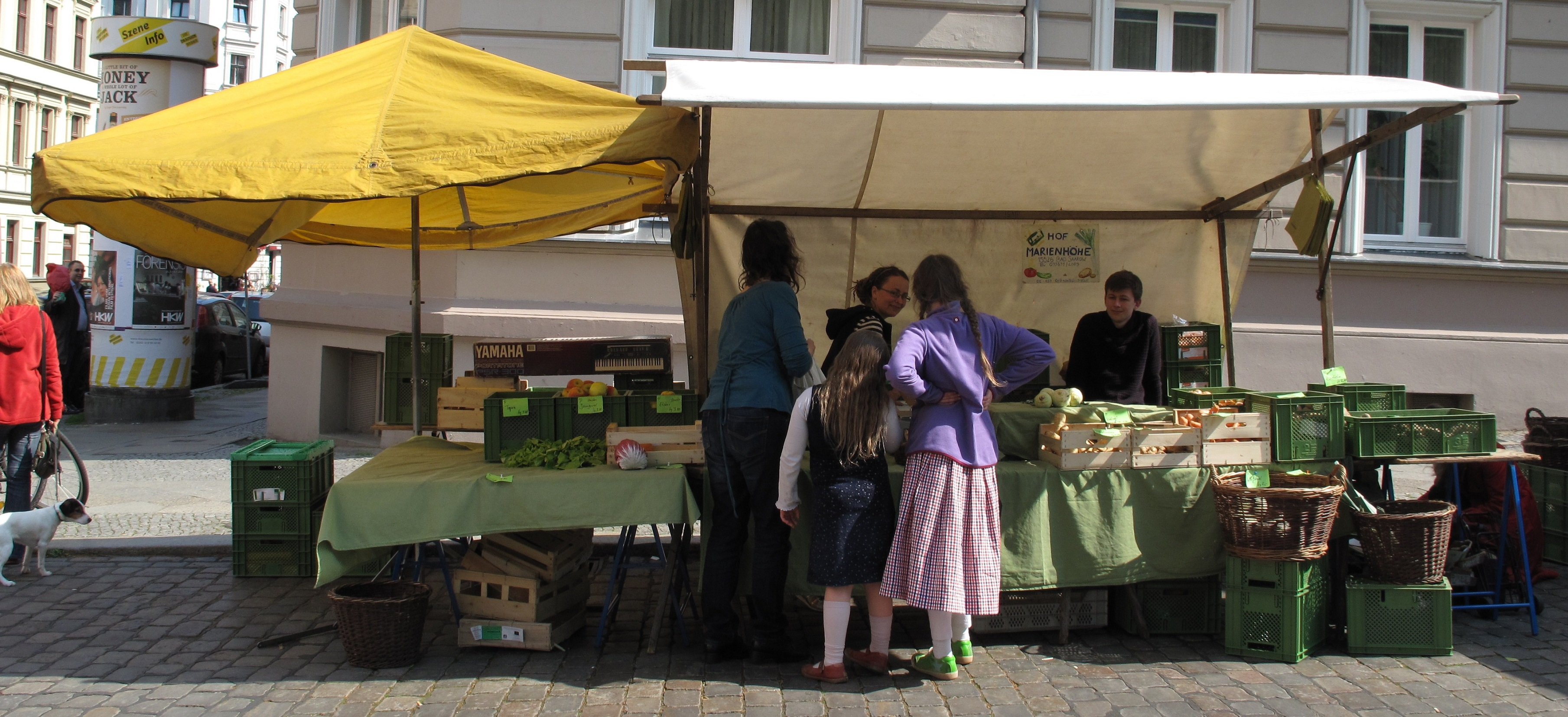 Stand of the „Hof Marienhöhe“ on the Ökomarket of the Chamissoplatz in Berlin-Kreuzberg. Marienhöhe is a part (settlement, estate; german: Wohnplatz) and organic farm of Bad Saarow, District Oder-Spree, Brandenburg, Germany. The place was established in 1880 as folwark of the manor Saarow. Since 1928 the „Hof Marienhöhe“ works on the biodynamic agriculture-method (Demeter international) and is considered to be the oldest farm working with this method in Germany.